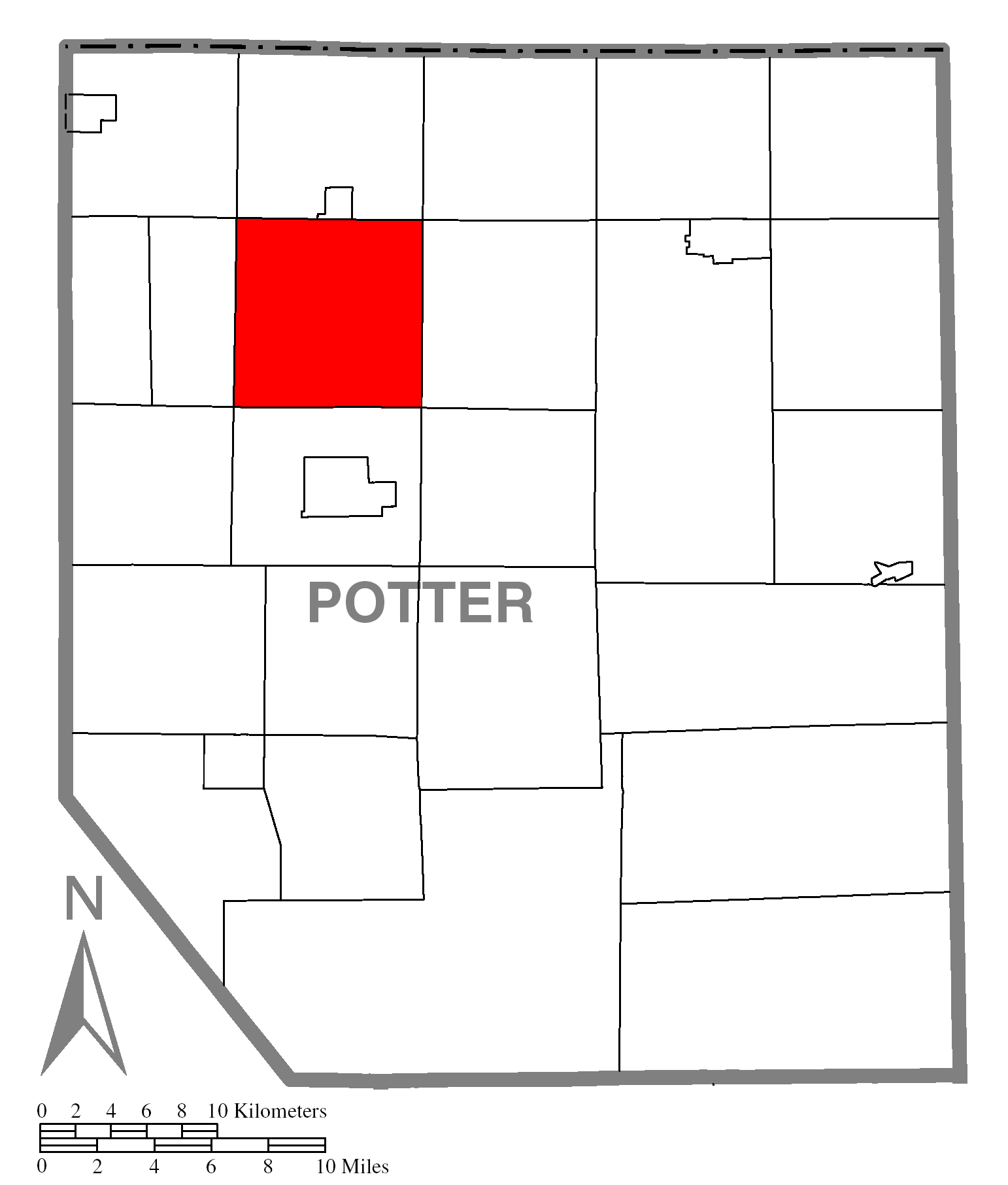 A map of Potter County showing Hebron Township, Pennsylvania (alternate) highlighted on the map.